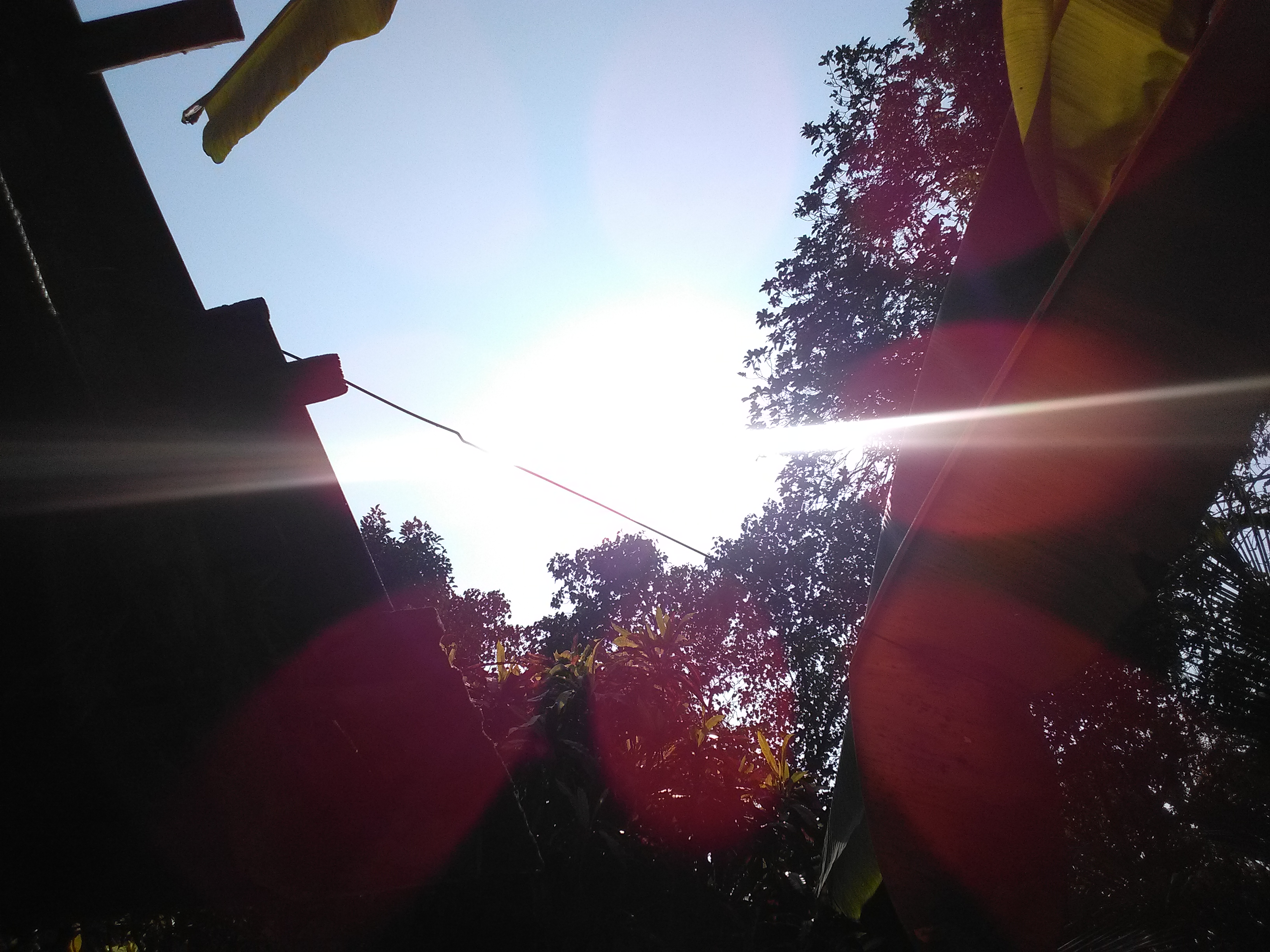 Noon_India_Kerala